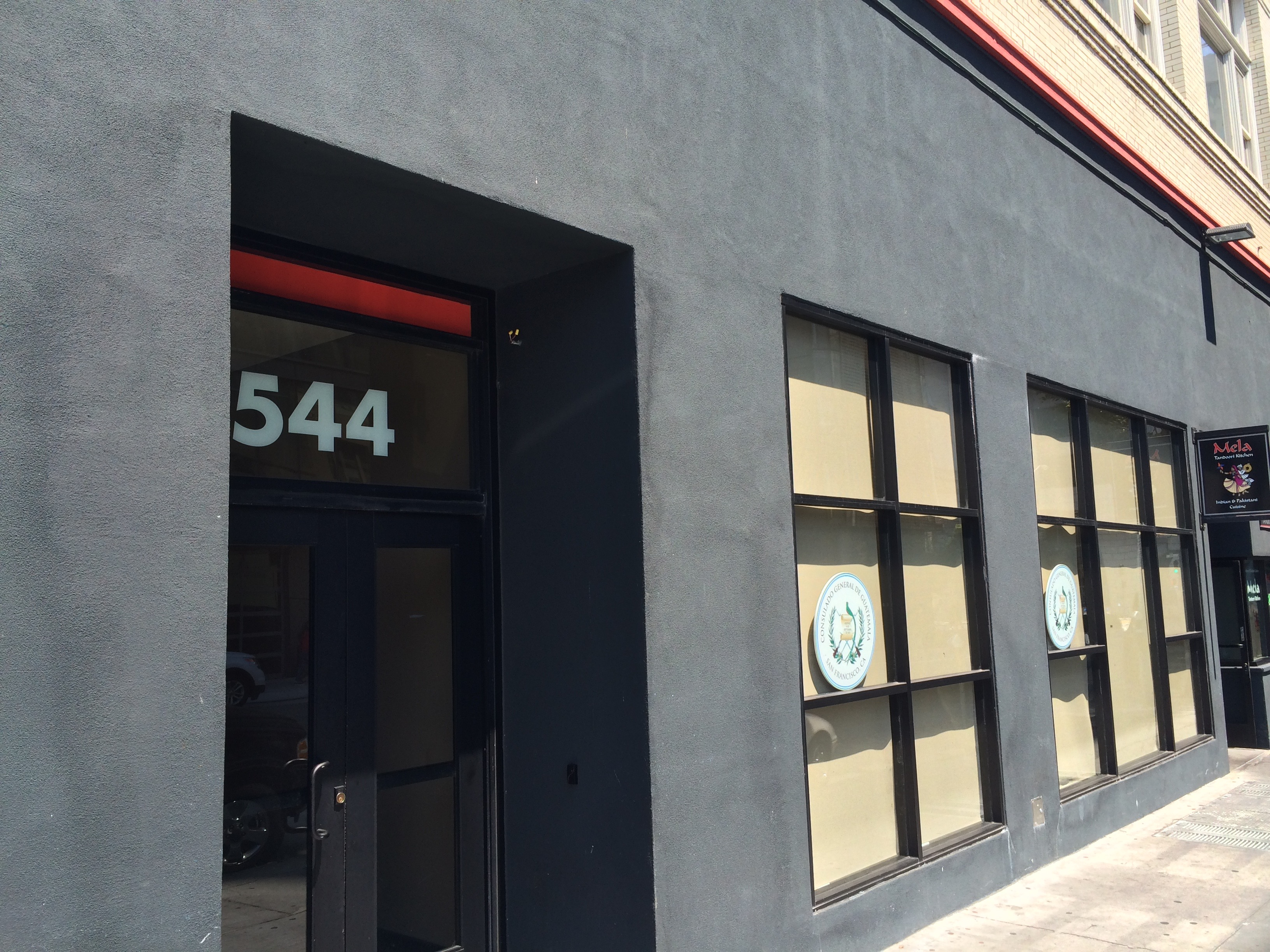 Building hosting the consulate-general of Guatemala in San Francisco, California